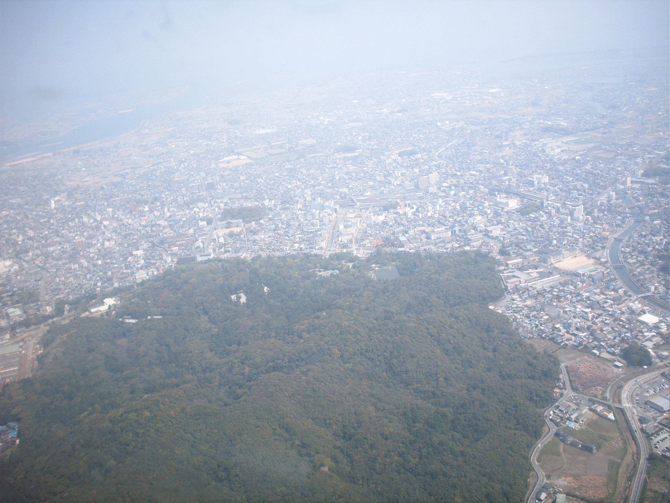 The Toyoukedaijingu (Geku) at Ise city Mie Prf. Japan.